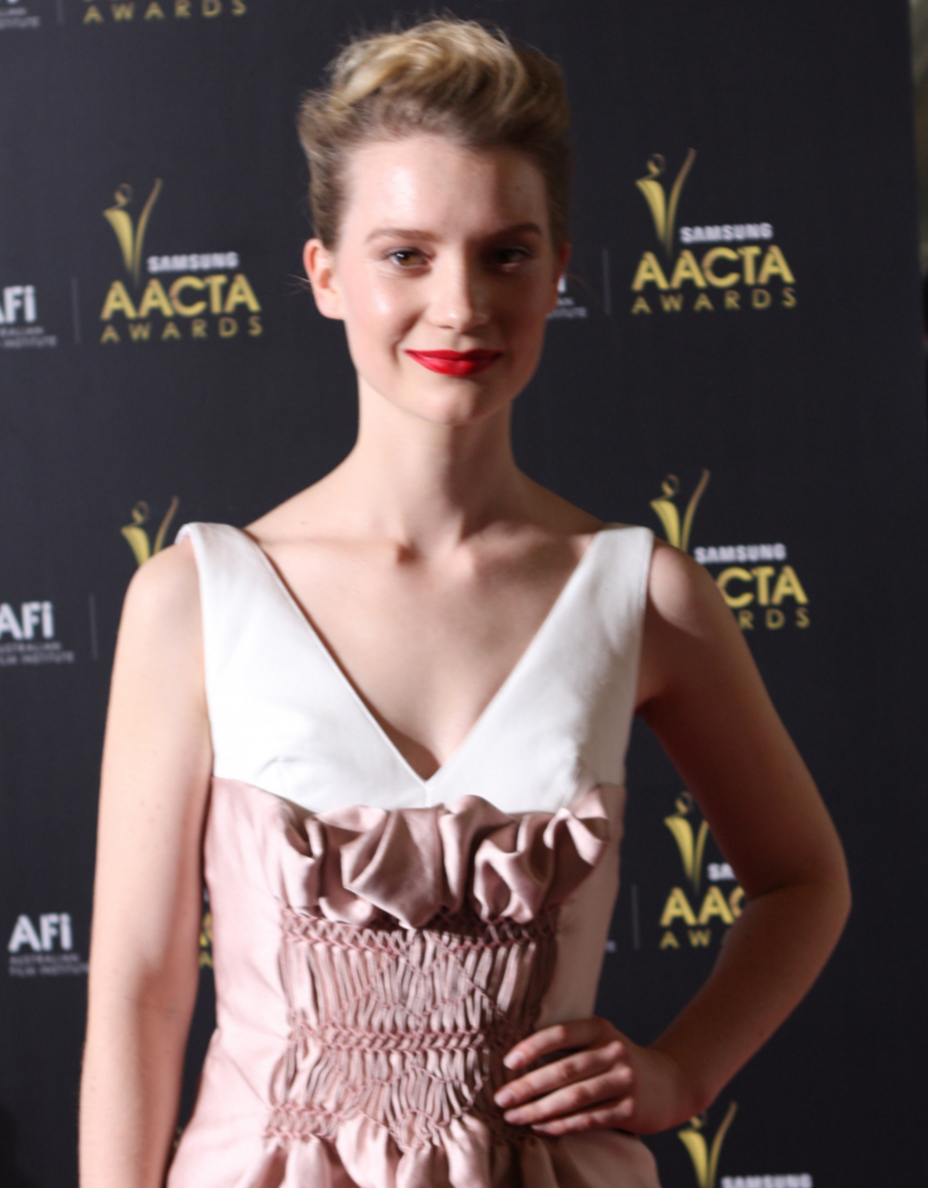 Mia Wasikowska at the Samsung AACTA Awards 2012 in Sydney, Australia.